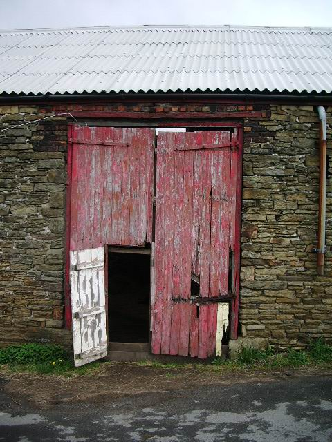 Barn door